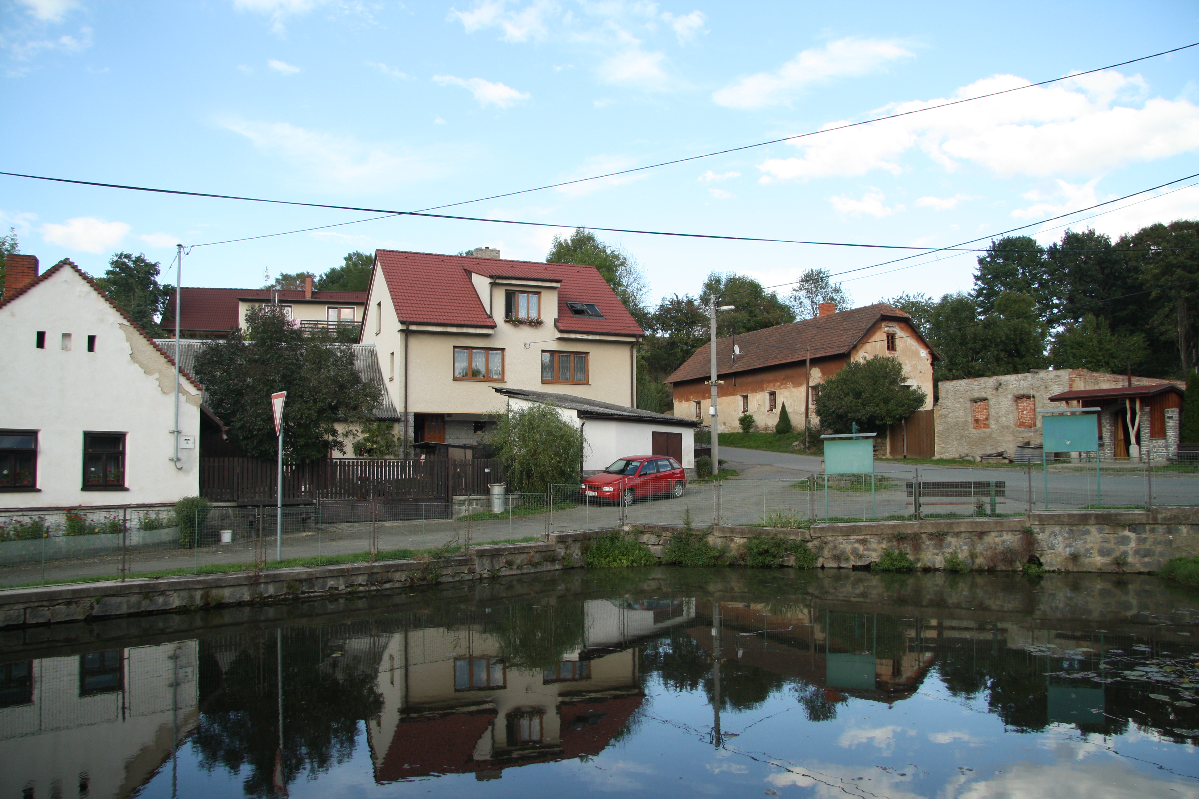 Center of Zberaz, Sedlčany, Příbram District.